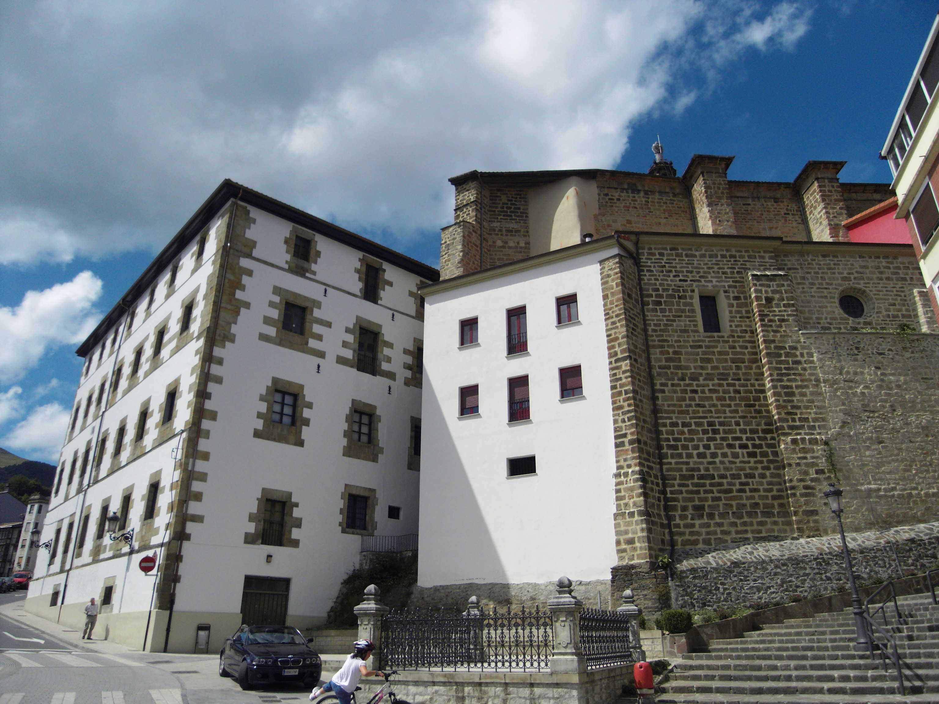 Rear part of Andre Maria Church in Ordizia (Guipuscoa, Basque Country)